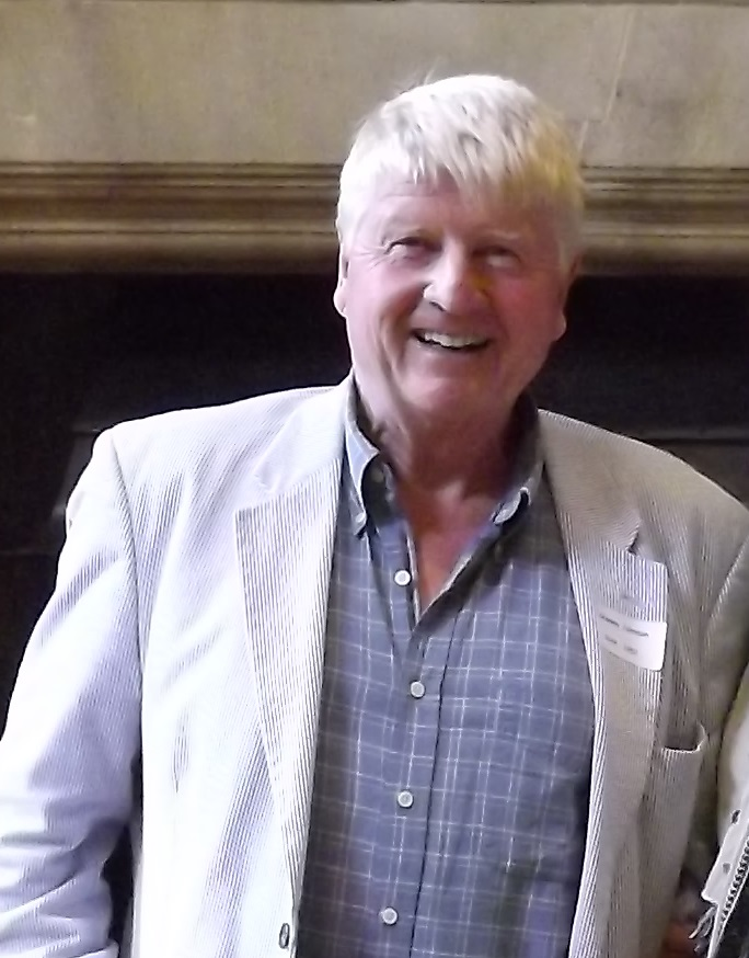 Former MEP Stanley Johnson